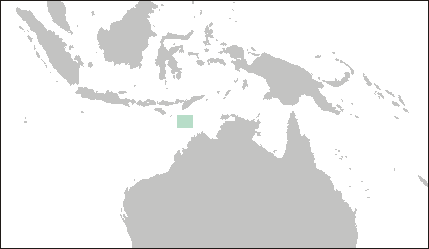 Location of Ashmore and Cartier Islands Territory